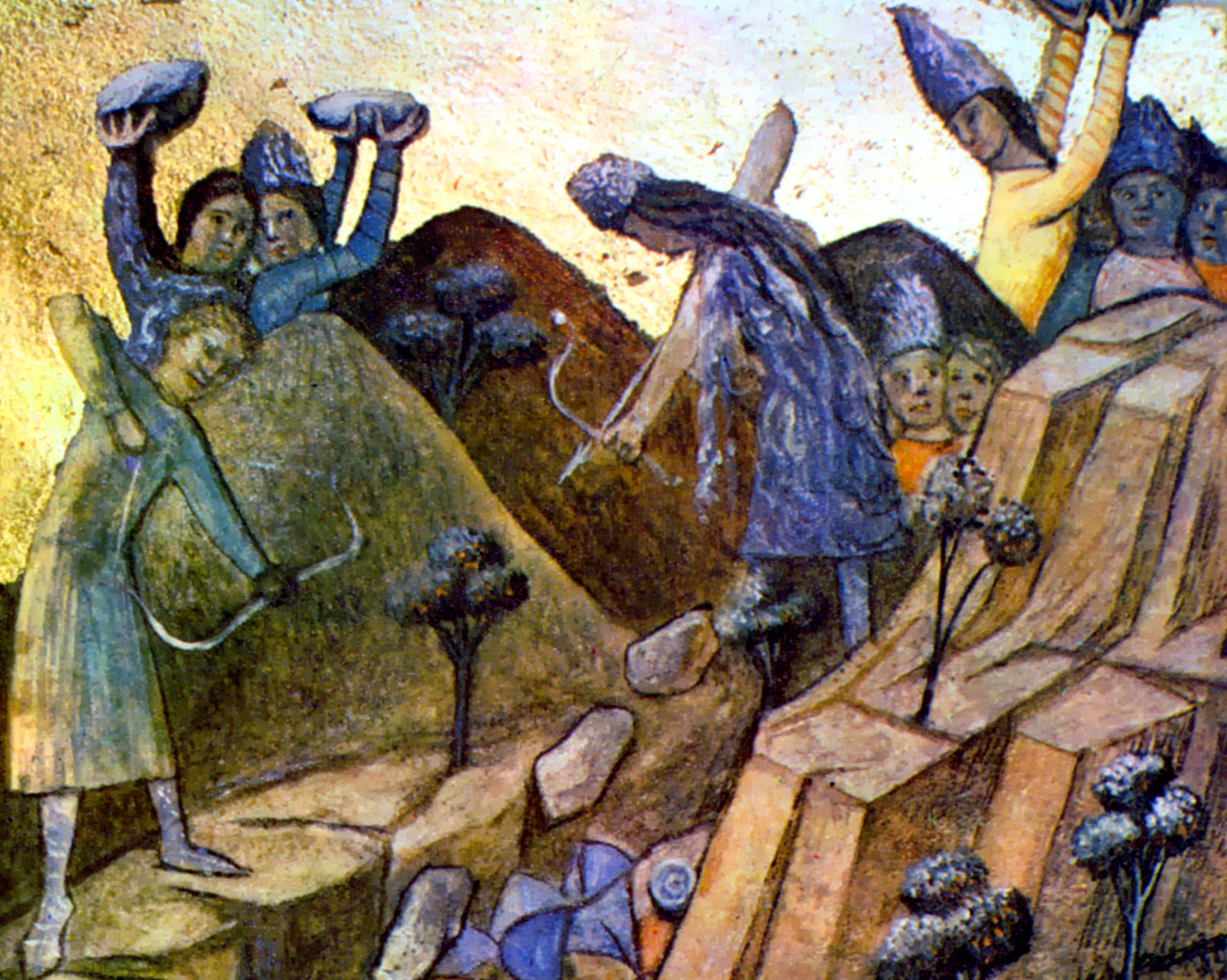 The Battle of Posada (November 9-12, 1330) in the Chronicon Pictum. The Basarab I of Wallachia's army ambushed Charles Robert of Anjou, king of Hungary and his 30,000-strong invading army. The Vlach (Romanian) warriors rolled down rocks over the cliff edges in a place where the Hungarian mounted knights could not escape from them nor climb the heights to dislodge the attackers.